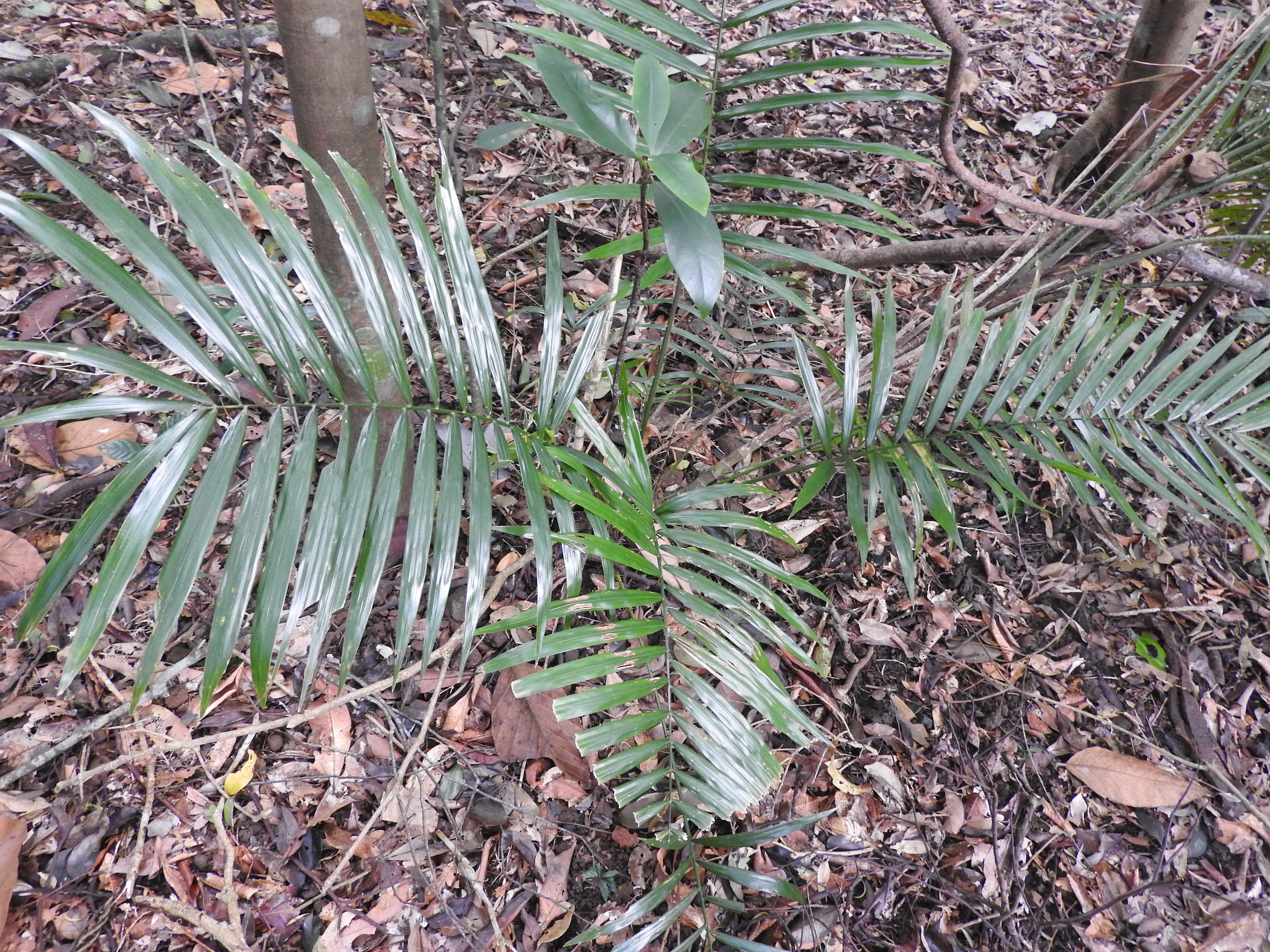 Arecaceae-straggling by hooks.